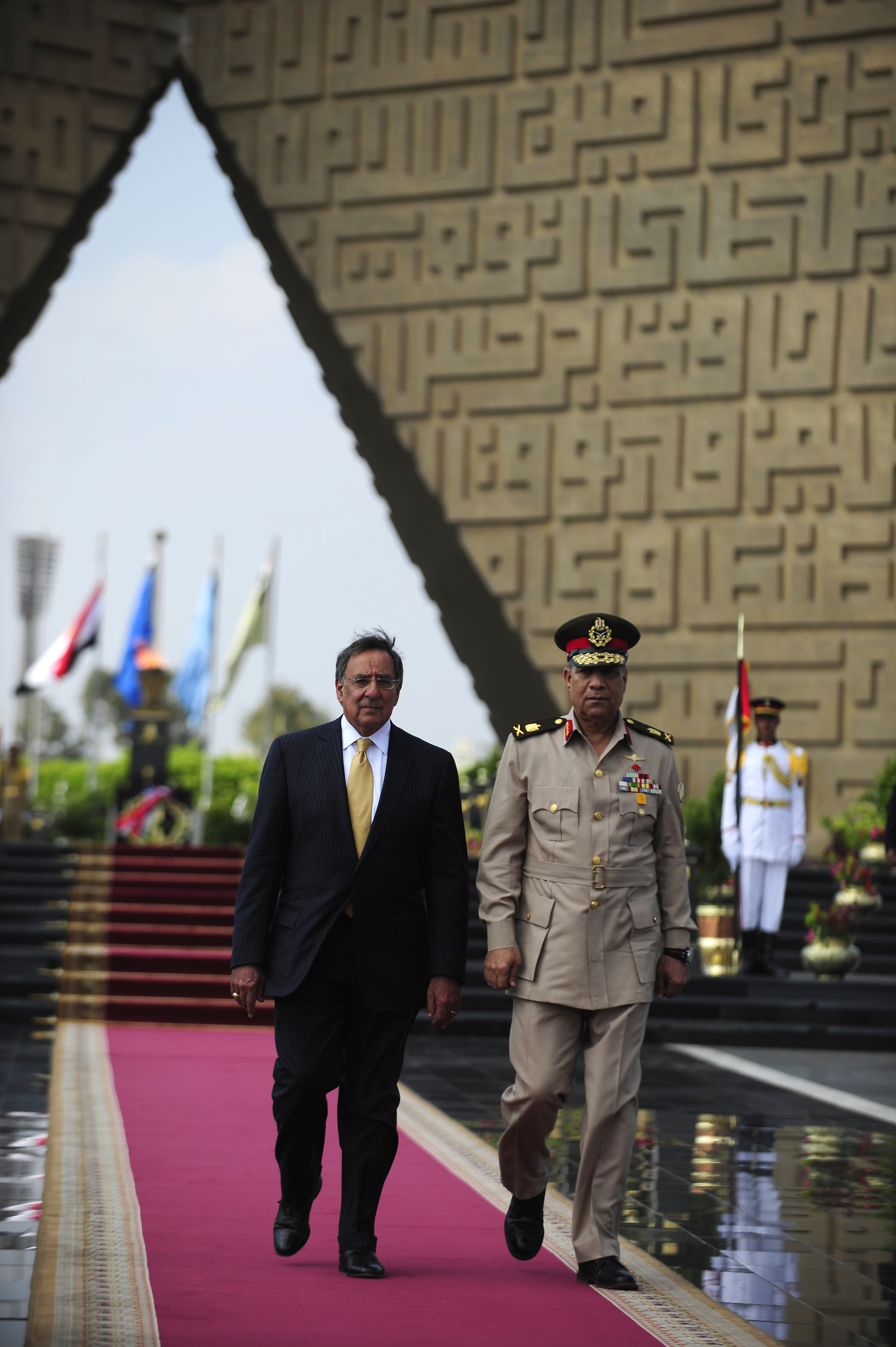 U.S. Defense Secretary Leon E. Panetta participates in a wreath-laying ceremony with Egyptian Maj. Gen. Rouini at the Tomb of the Unknown Soldier and President Anwar Sadat's memorial in Cairo, Oct. 4, 2011. DOD photo by U.S. Air Force Tech. Sgt. Jacob N. Bailey